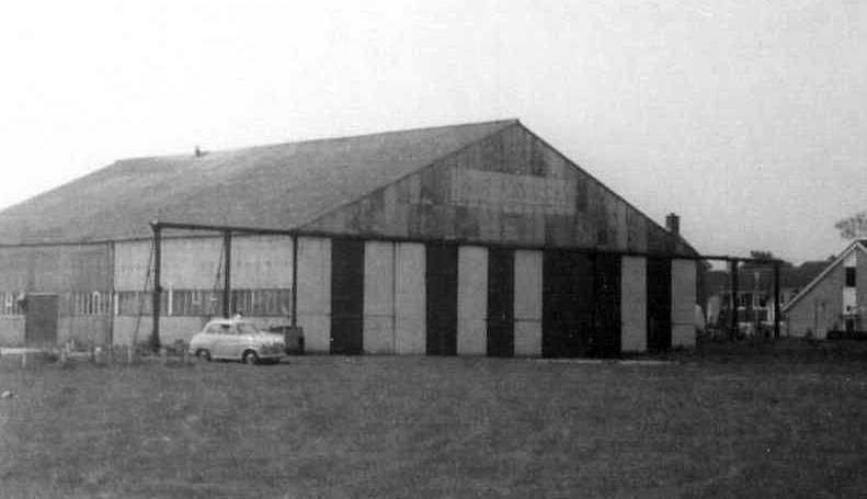 The extended main hangar at Ramsgate Municipal Airport, with the logo of the operator, Air Kruise, just visible on the front. Probably taken in Summer 1968.